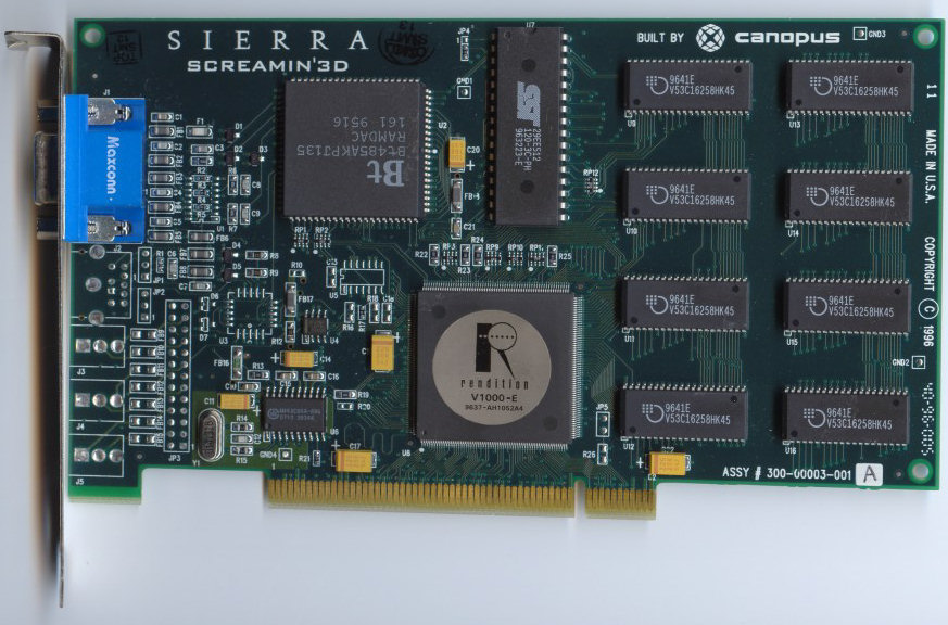 Sierra Screamin' 3D. Verite V1000 accelerator. Scanned card.